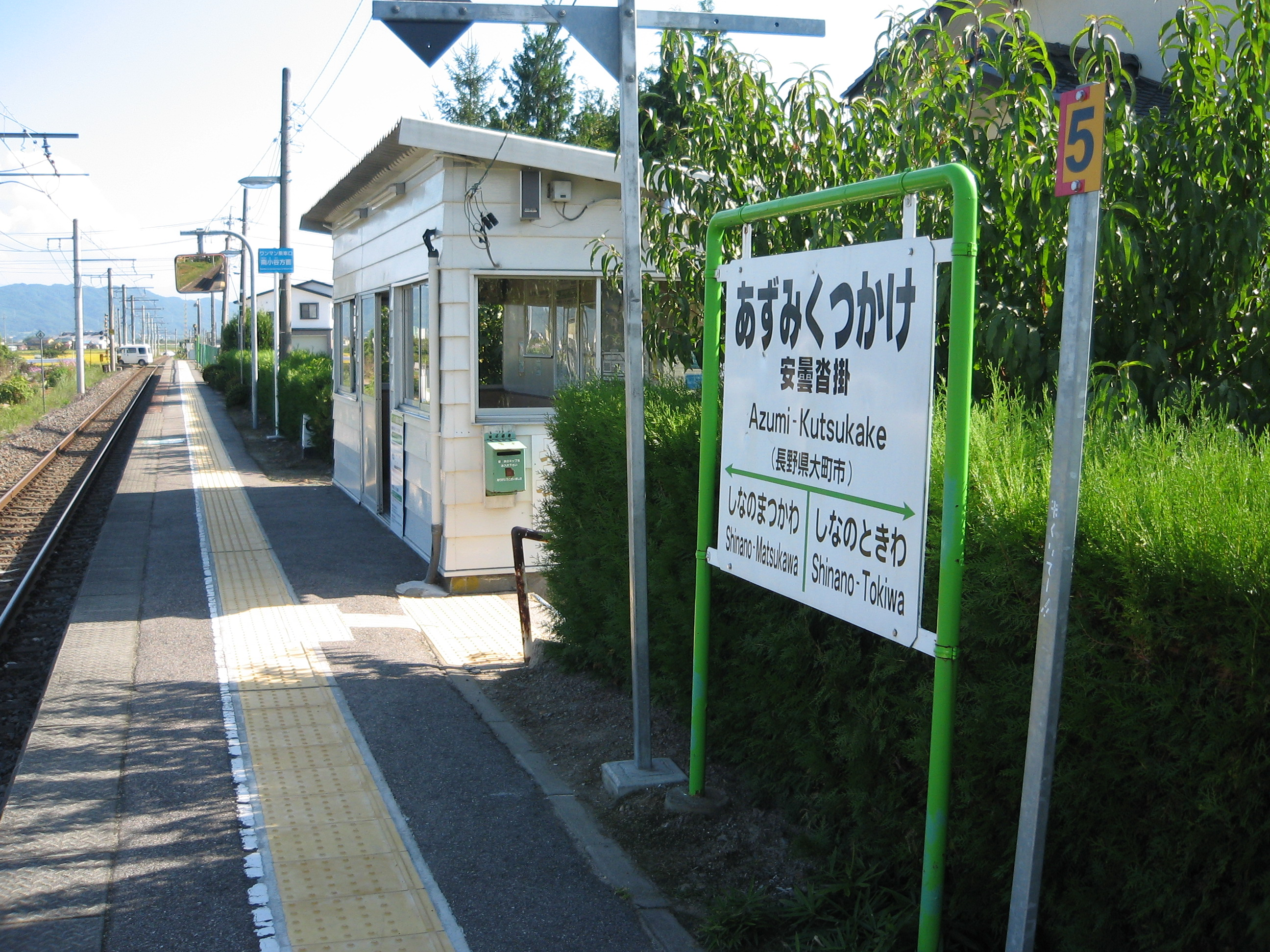 Azumi-Kutsukake Station on Oito Line